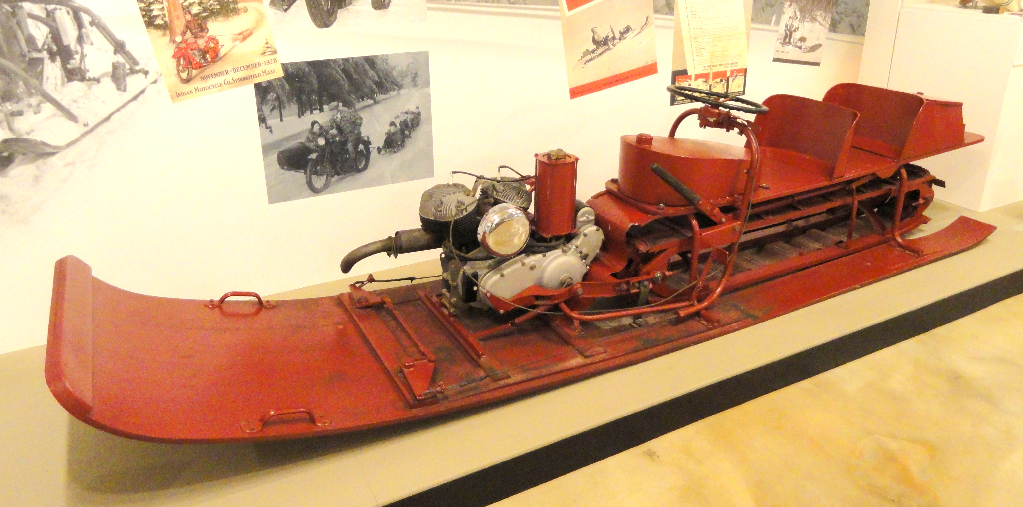 Exhibit in the Lyman & Merrie Wood Museum of Springfield History, Springfield, Massachusetts, USA. This exhibit is old enough so that it is in the public domain.